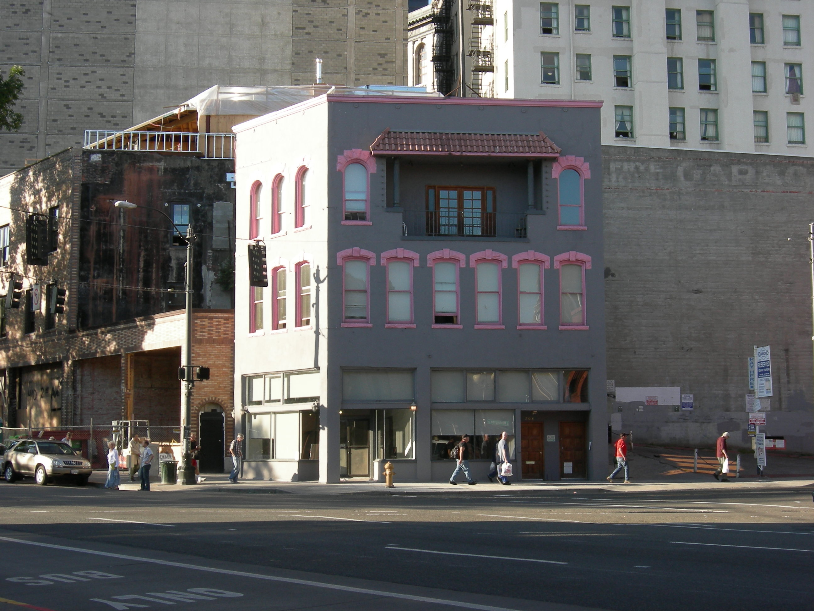 Historic Chin Gee Hee Building (also known as the Canton Building, now Kon Yick Building), Seattle, Washington. See [1], [2].